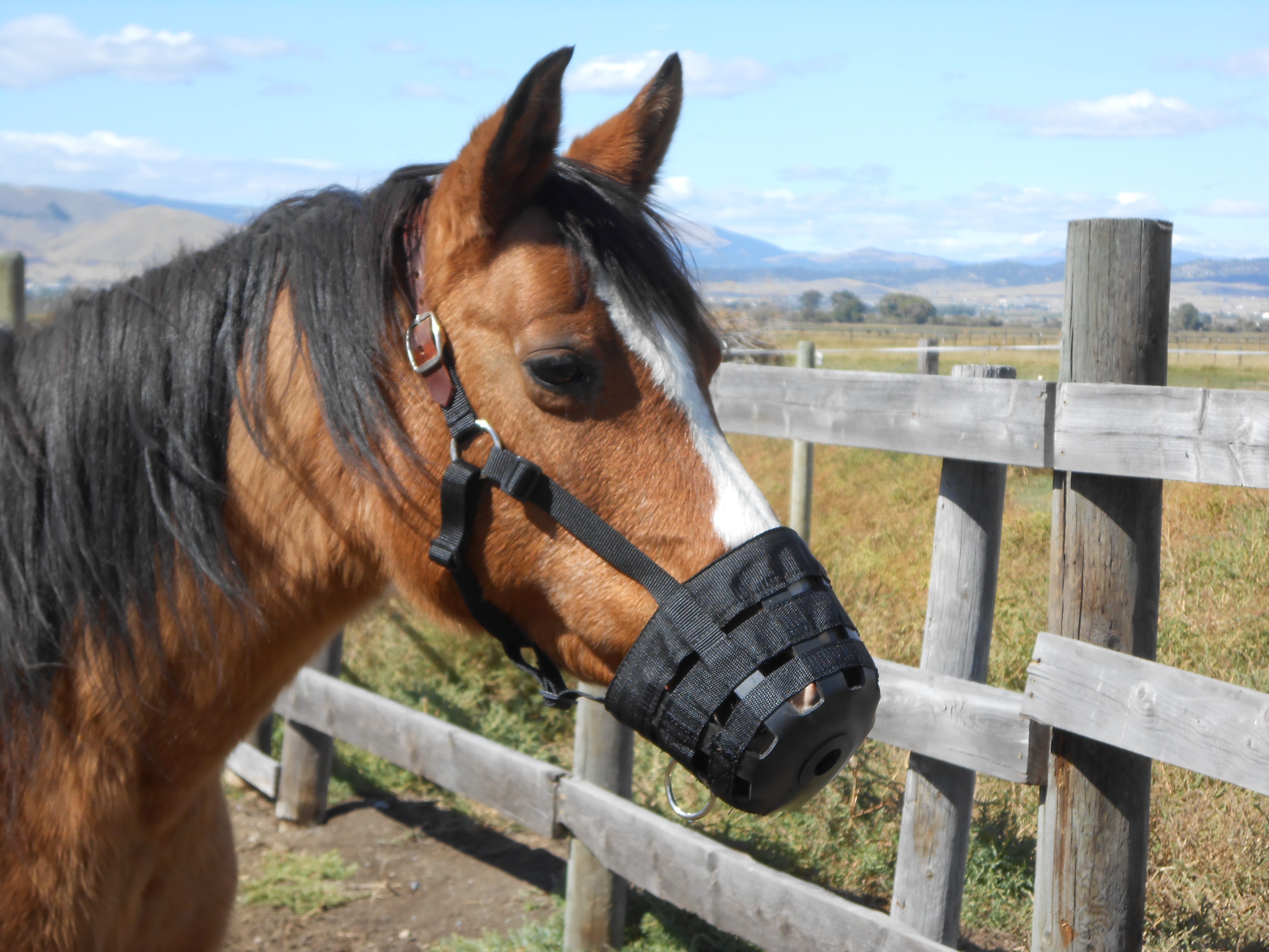 A grazing muzzle, prevents horses from overeating when on pasture. It has a small hole in the bottom that allows a small amount of grass to be consumed, thus meeting the horse's need to graze, and it also allows water to be consumed. It has a breakaway crownpiece on the headstall so that a horse is not trapped if the muzzle catches on an object.